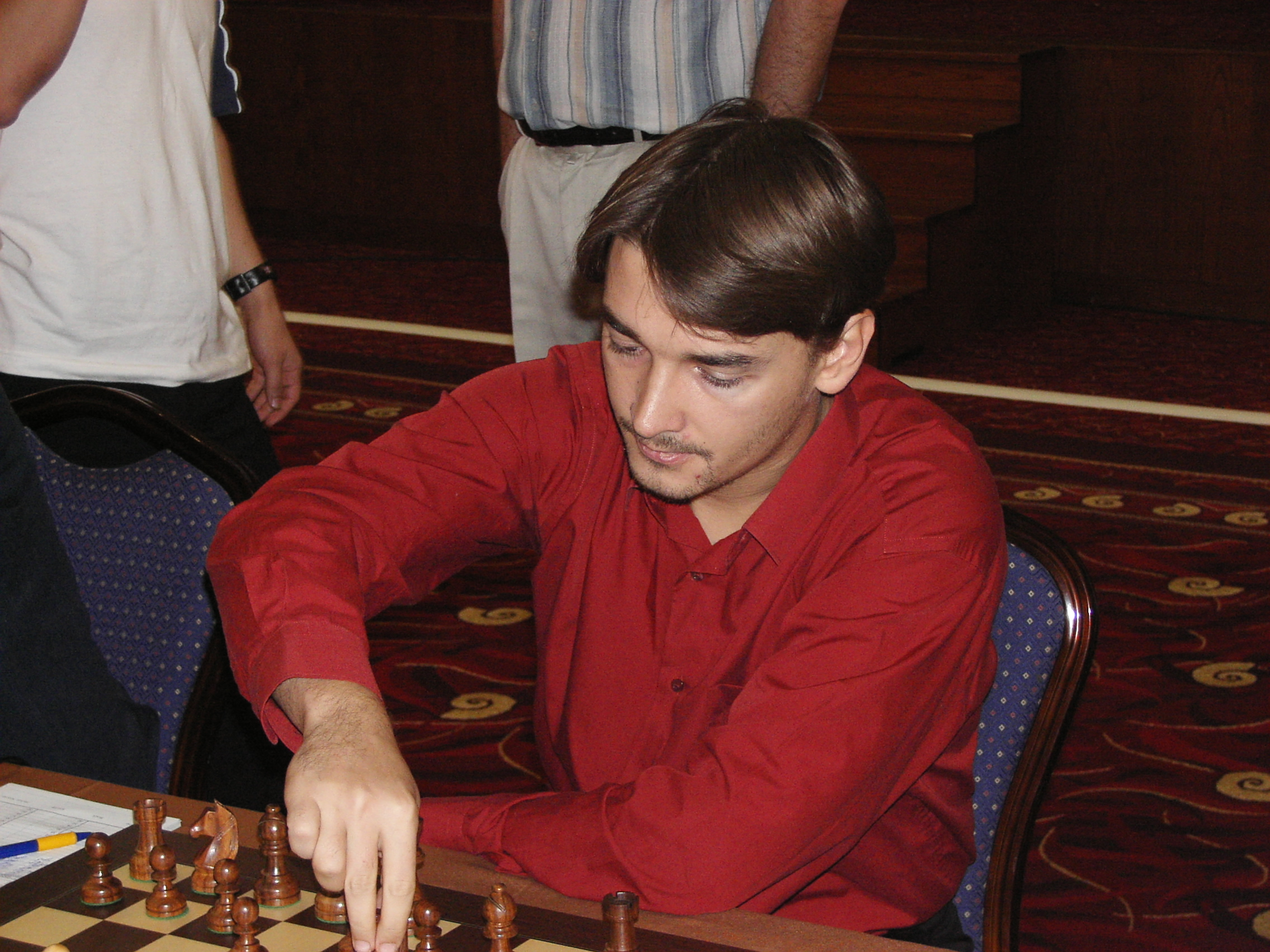 GM Alexander Morozevich Russia, EuroChess Iraklion 2007